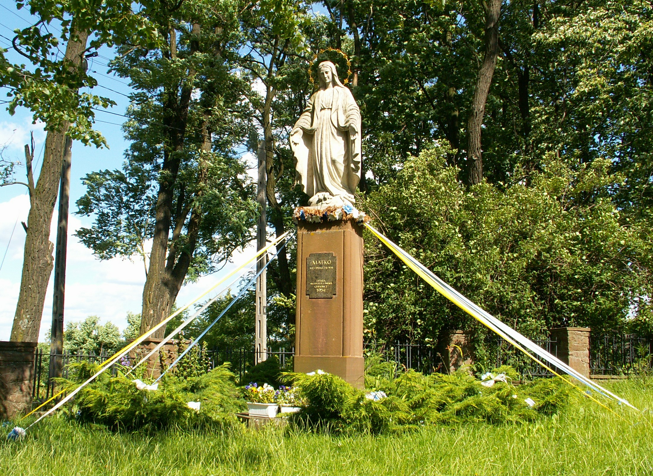 Statue in front of church in Chełmce (Poland)